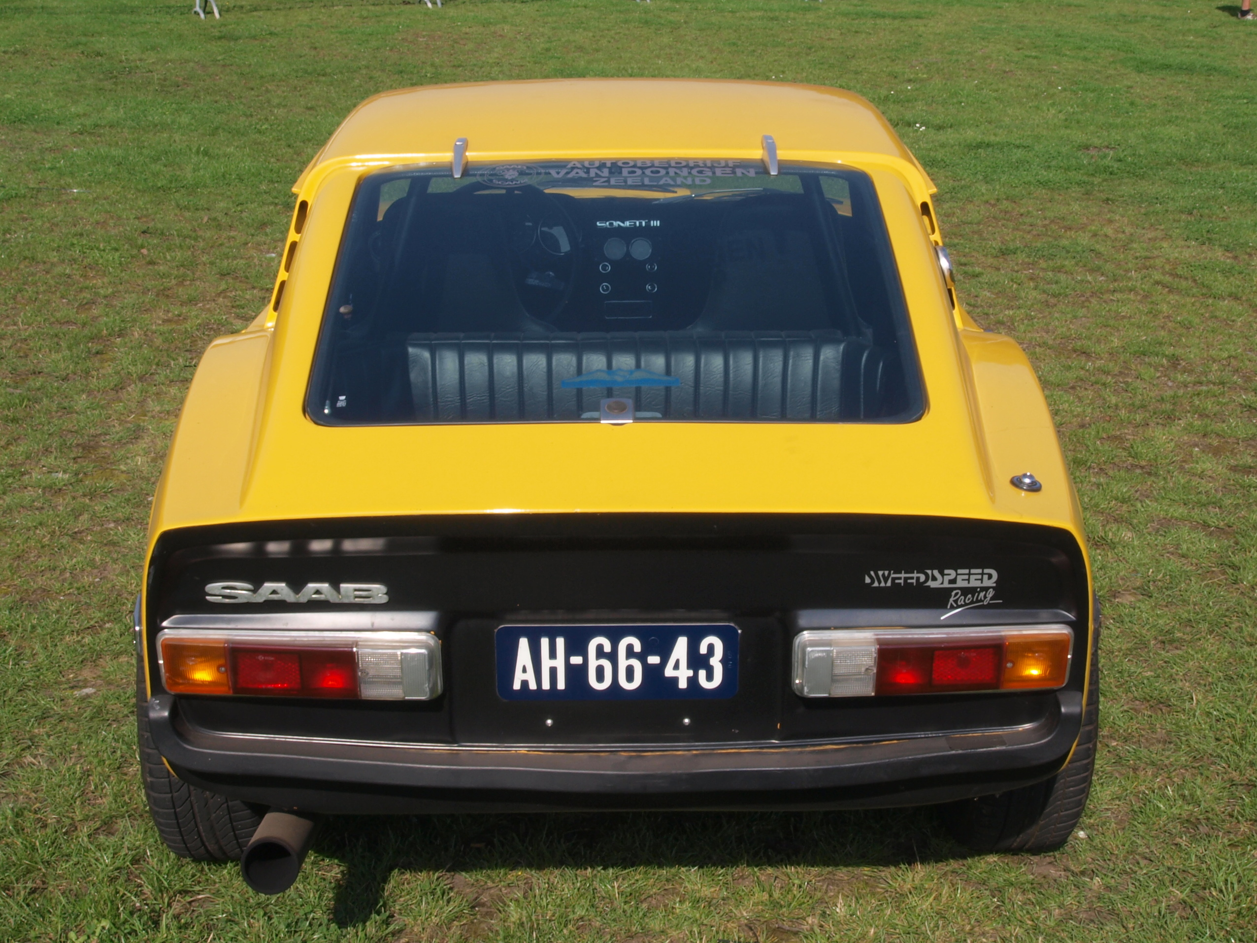 Photographed at the Classic Vehicle meeting 'Klassiek Mechaniek Zeeland 2011', The Netherlands.